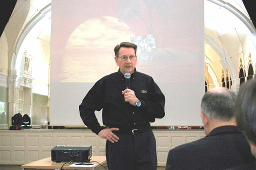 Frank Soltis at the iNN-Partner Camp 2008